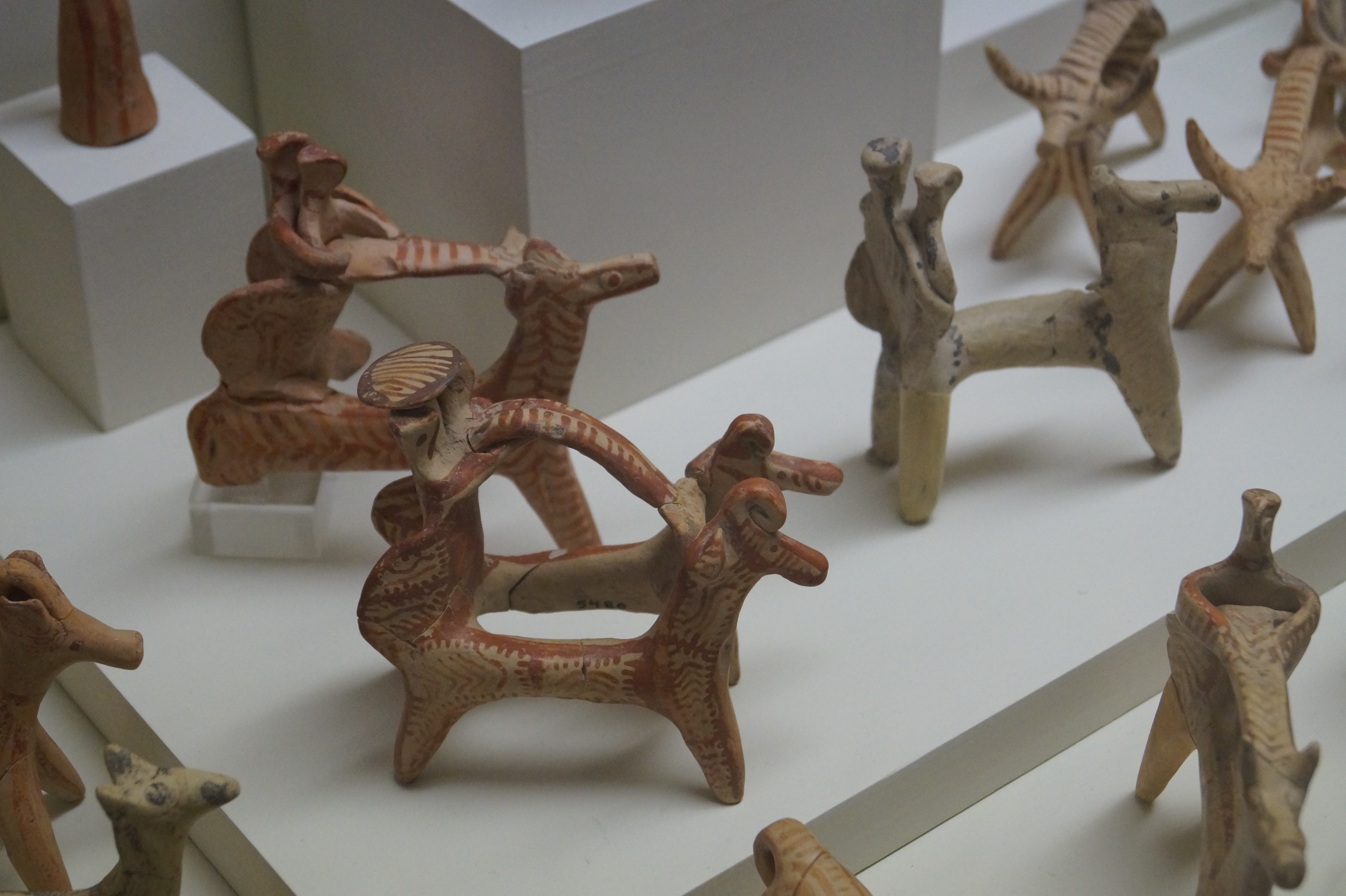 Archaeological Museum of Piraeus, Greece: Mycenaean figurines from Agios Konstantinos, Methana (14-13th century BC)